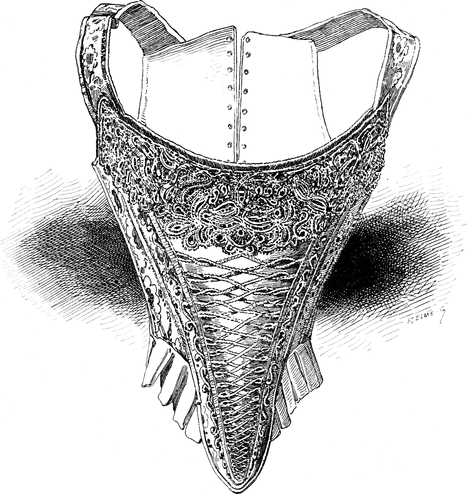 Golden brocade pair of stays of the eighteenth century (Musée des Arts Décoratifs).